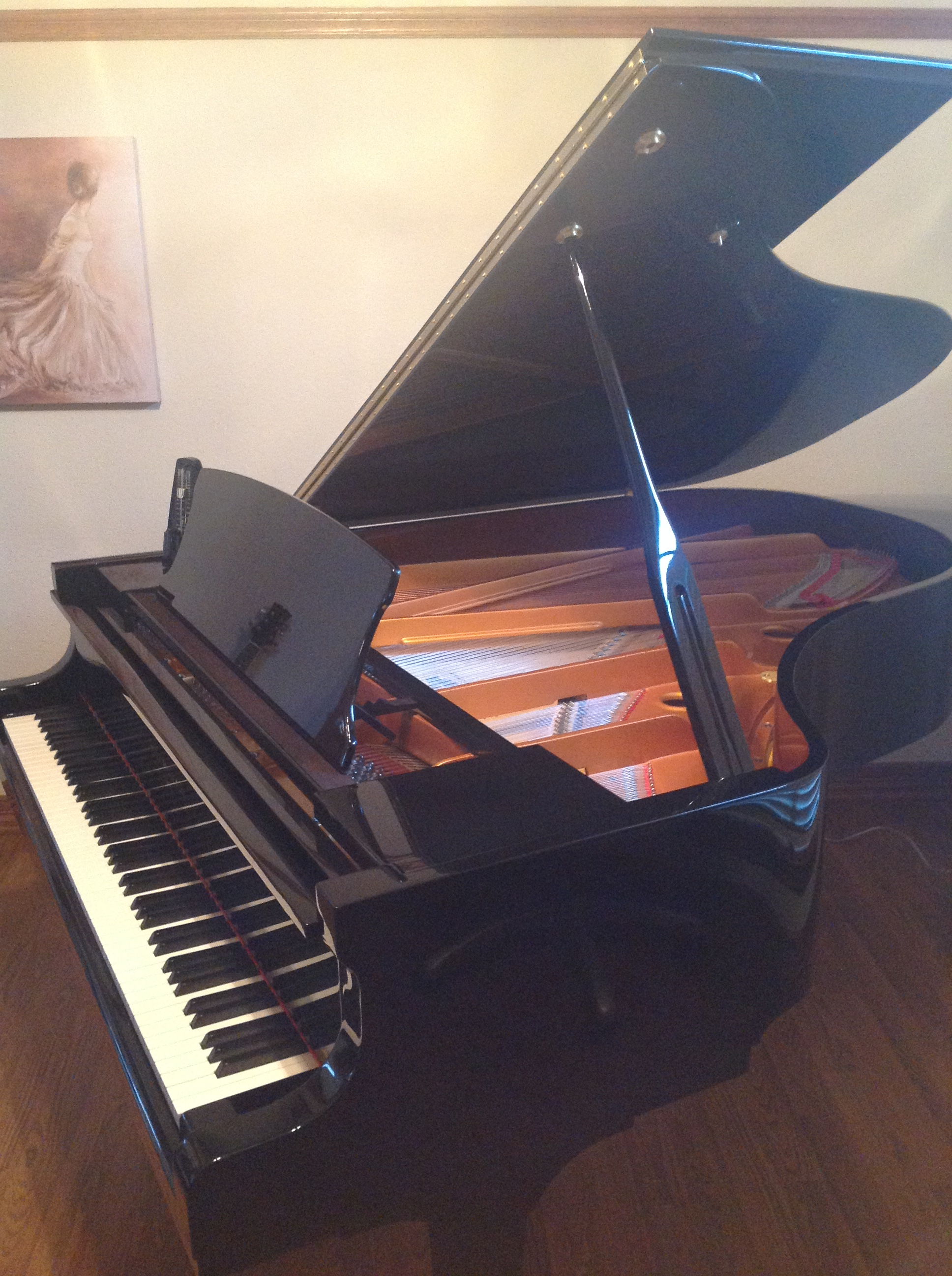 This is the largest available Hallet Davis Piano today